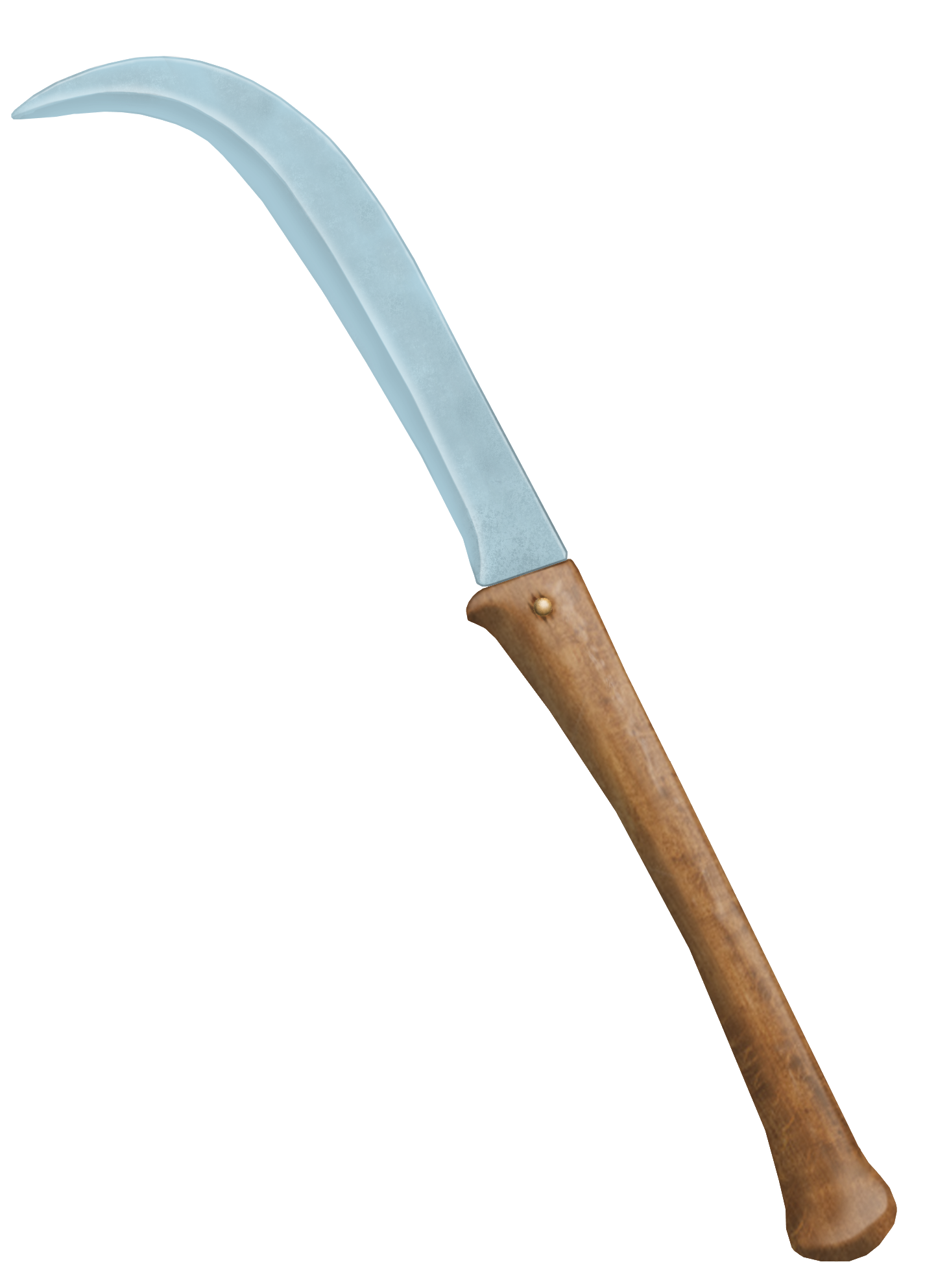 A falx, a Dacian weapon from the first century, based on the Adamclisi monument